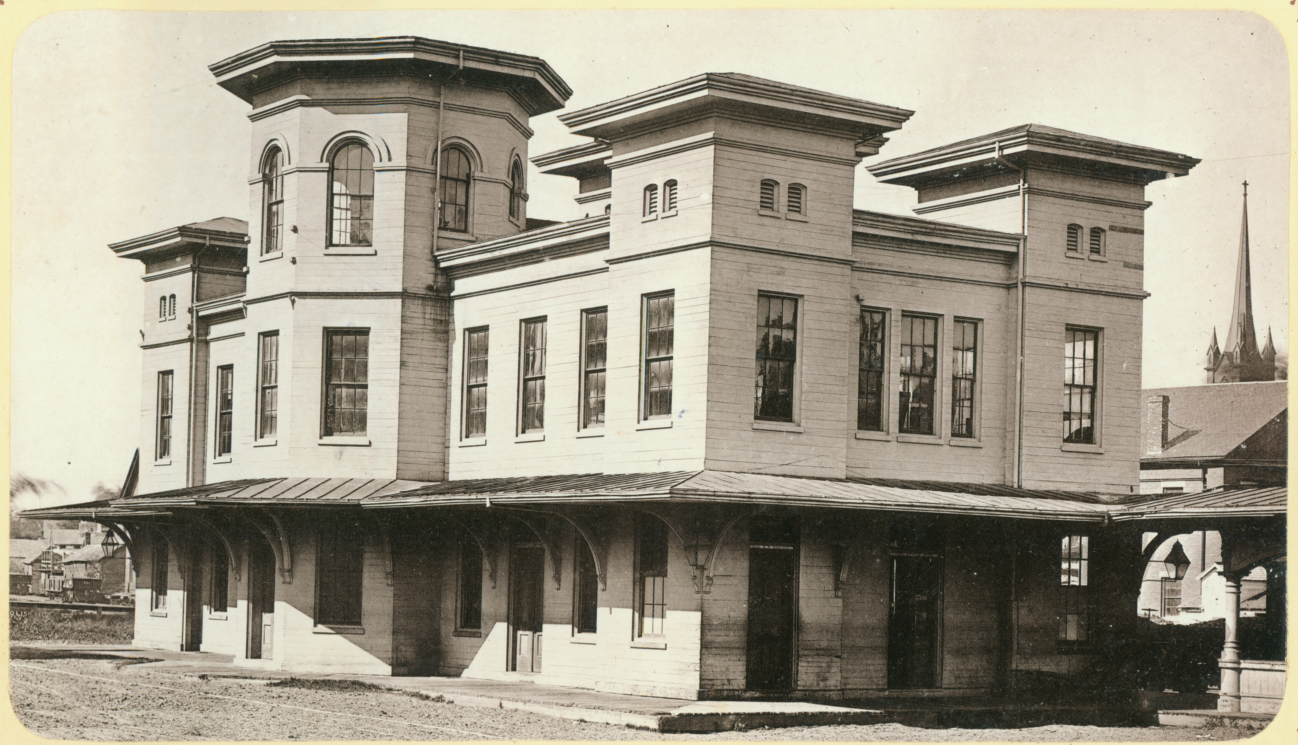 Image of the former New Haven and Northampton Railroad depot in Northampton, Massachusetts.